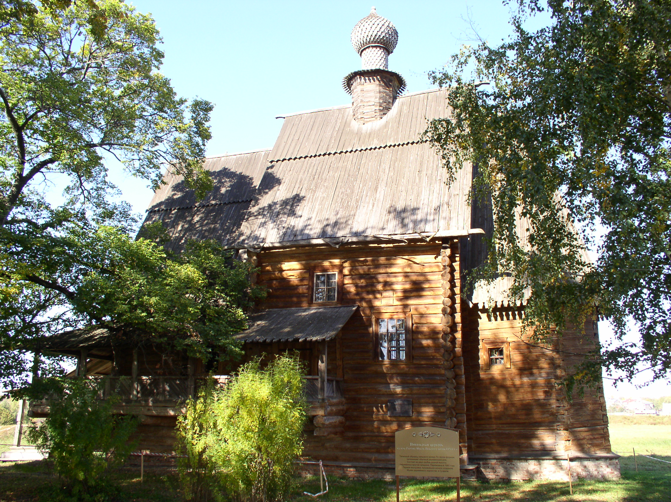 Church of Saint Nicholas (1766) from the village of Glotovo. Suzdal, Russia.